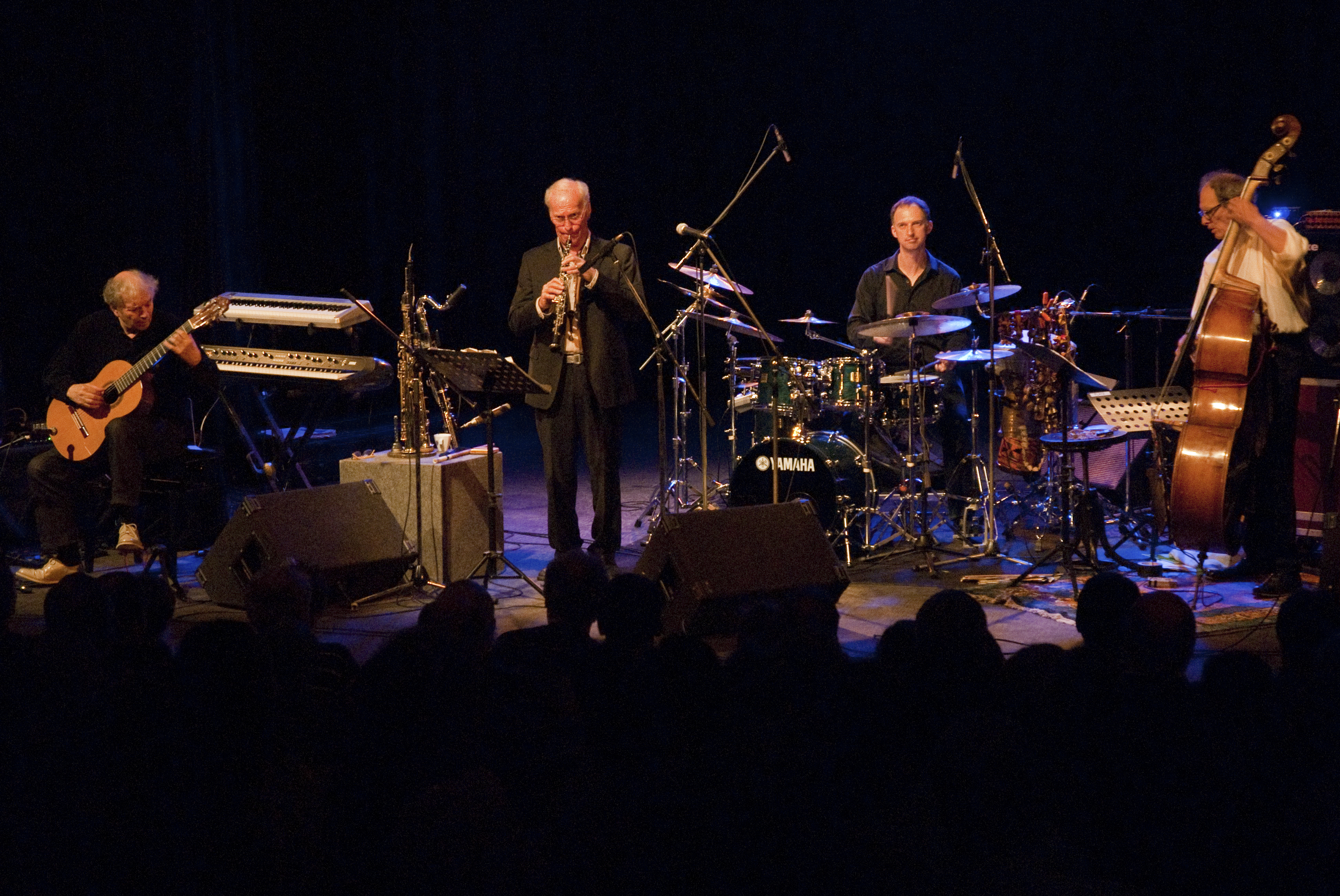 Oregon & Ralph Towner, Prague 25. 3. 2014, U Hasicu Theatre